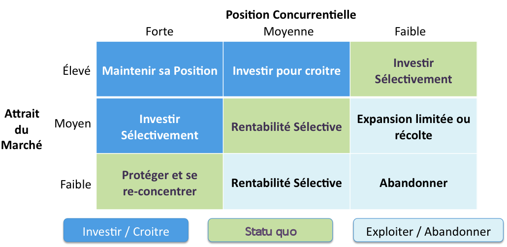 Matrice Mc Kinsey